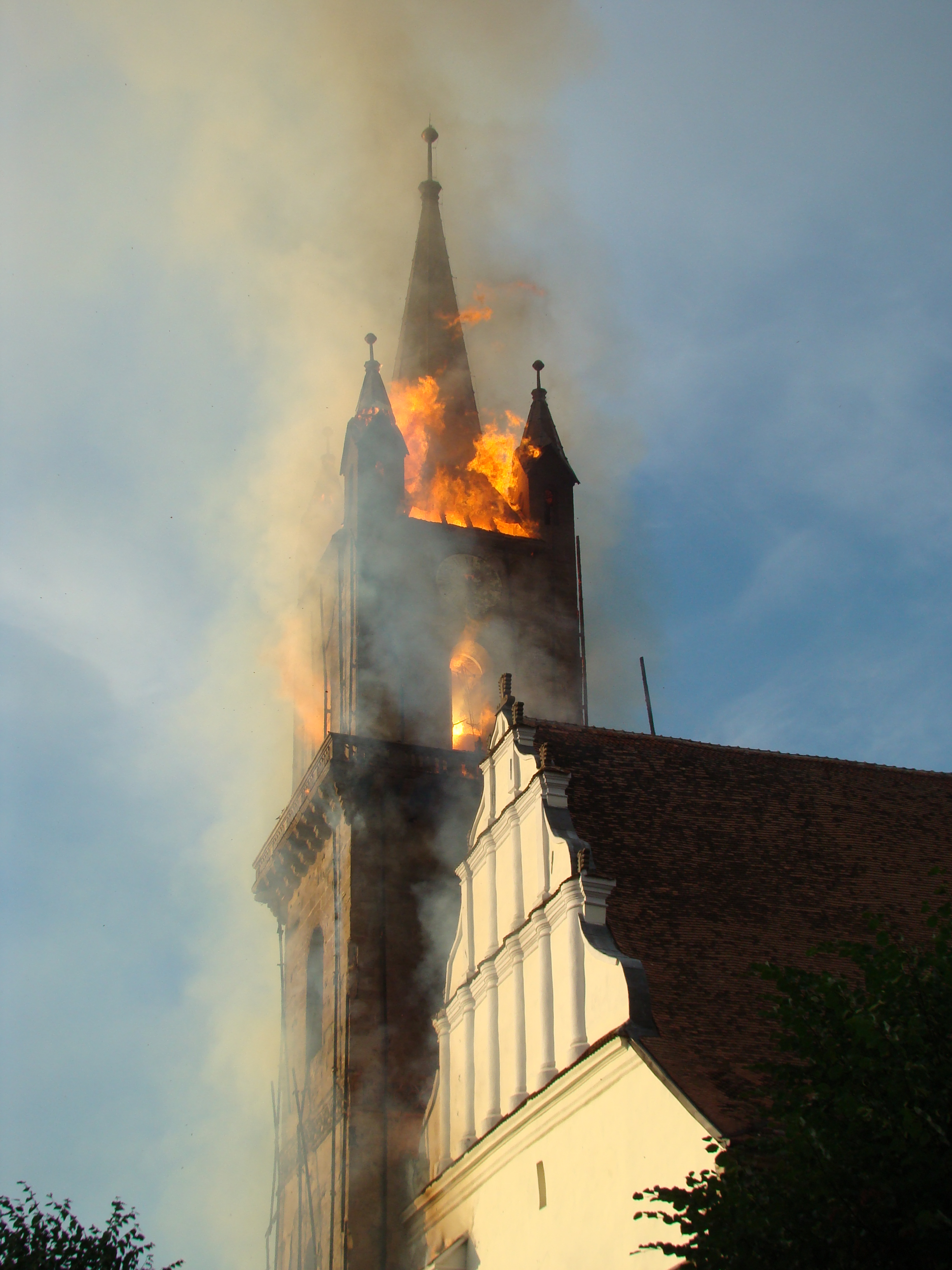 Burning evangelical church in Bistriţa, Romania, 2008-06-11